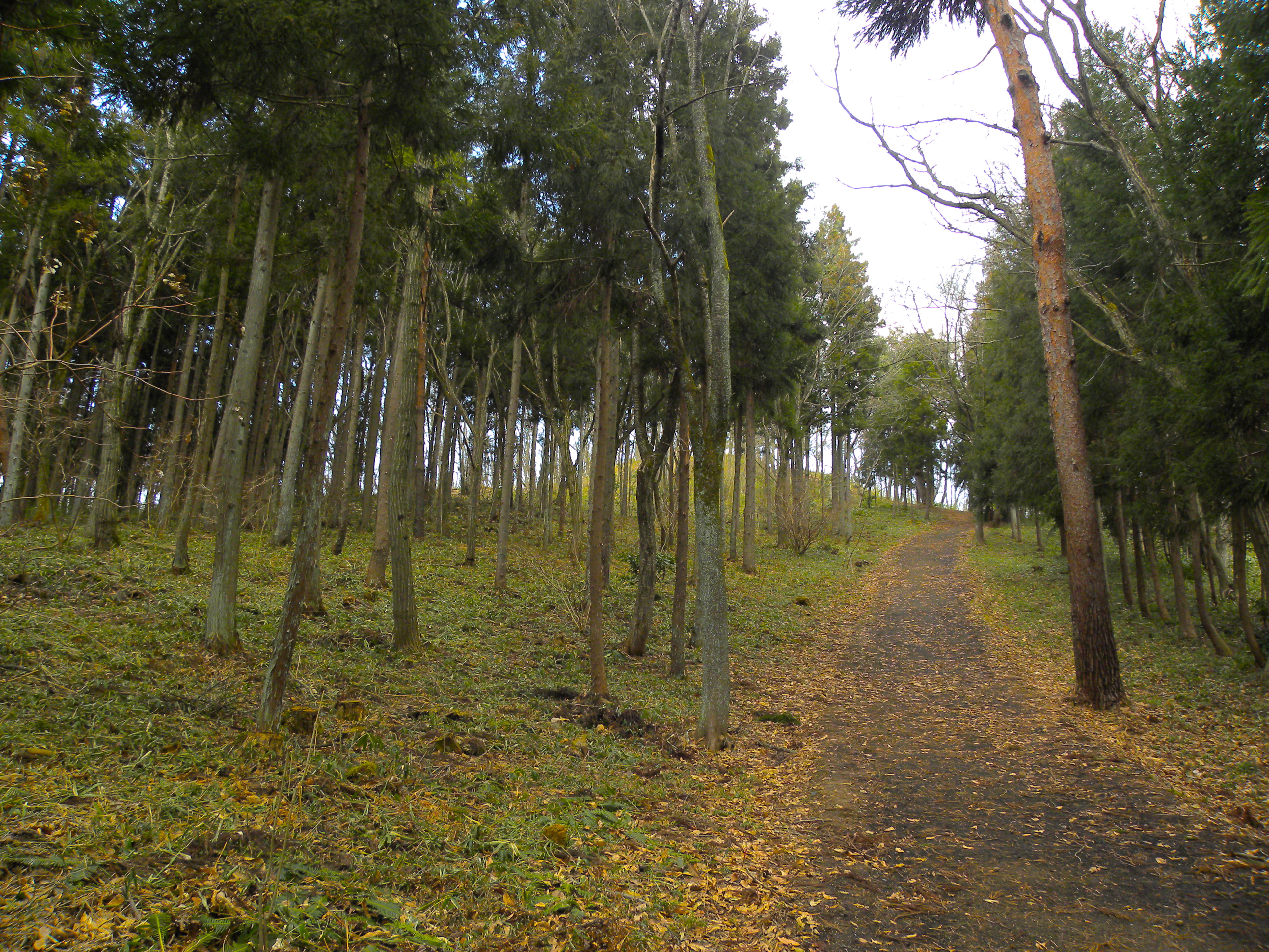 Path to the top of Mount Kinkei (Kinkeizan) in Hiraizumi Town, Iwate Prefecture, Japan